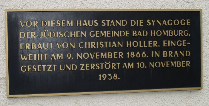 Commemorative plate for the destruction of the synagogue of Bad Homburg in 1938